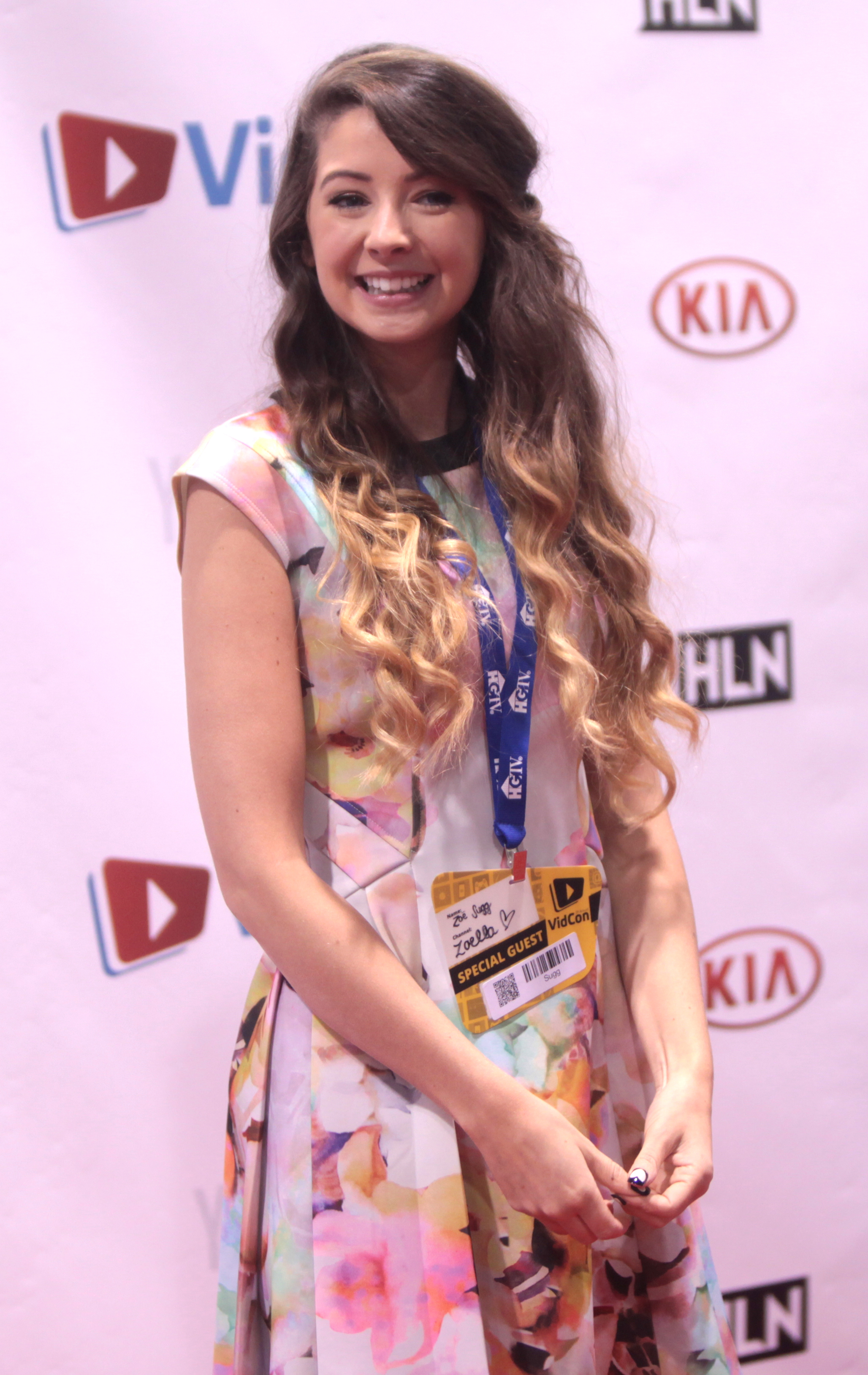 Zoe Sugg speaking at the 2014 VidCon on June 28, 2014.